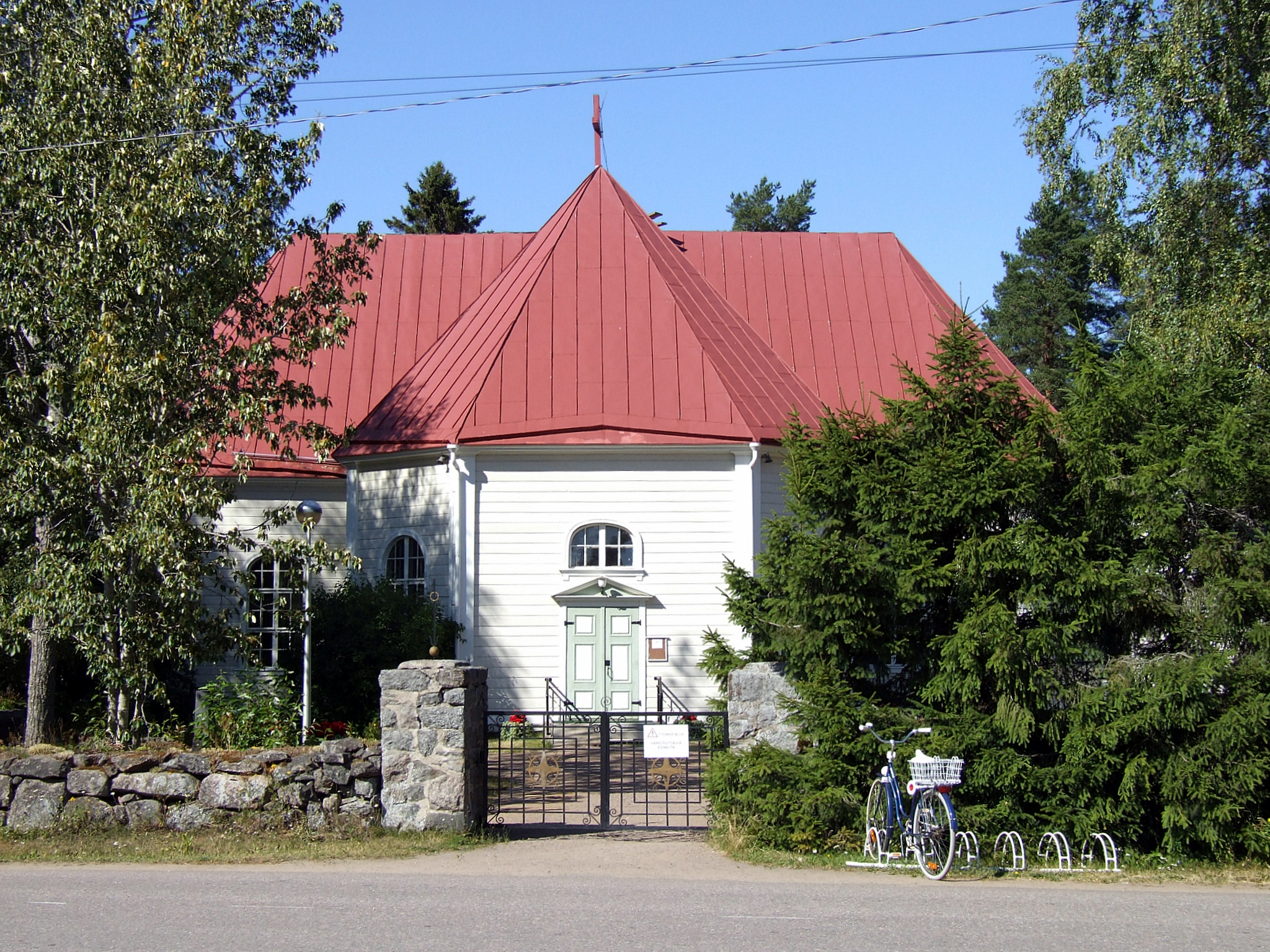 The church in Paavola village in Ruukki municipality (now Siikajoki) in Finland was completed in 1756 and was built and designed by Matti Honka.